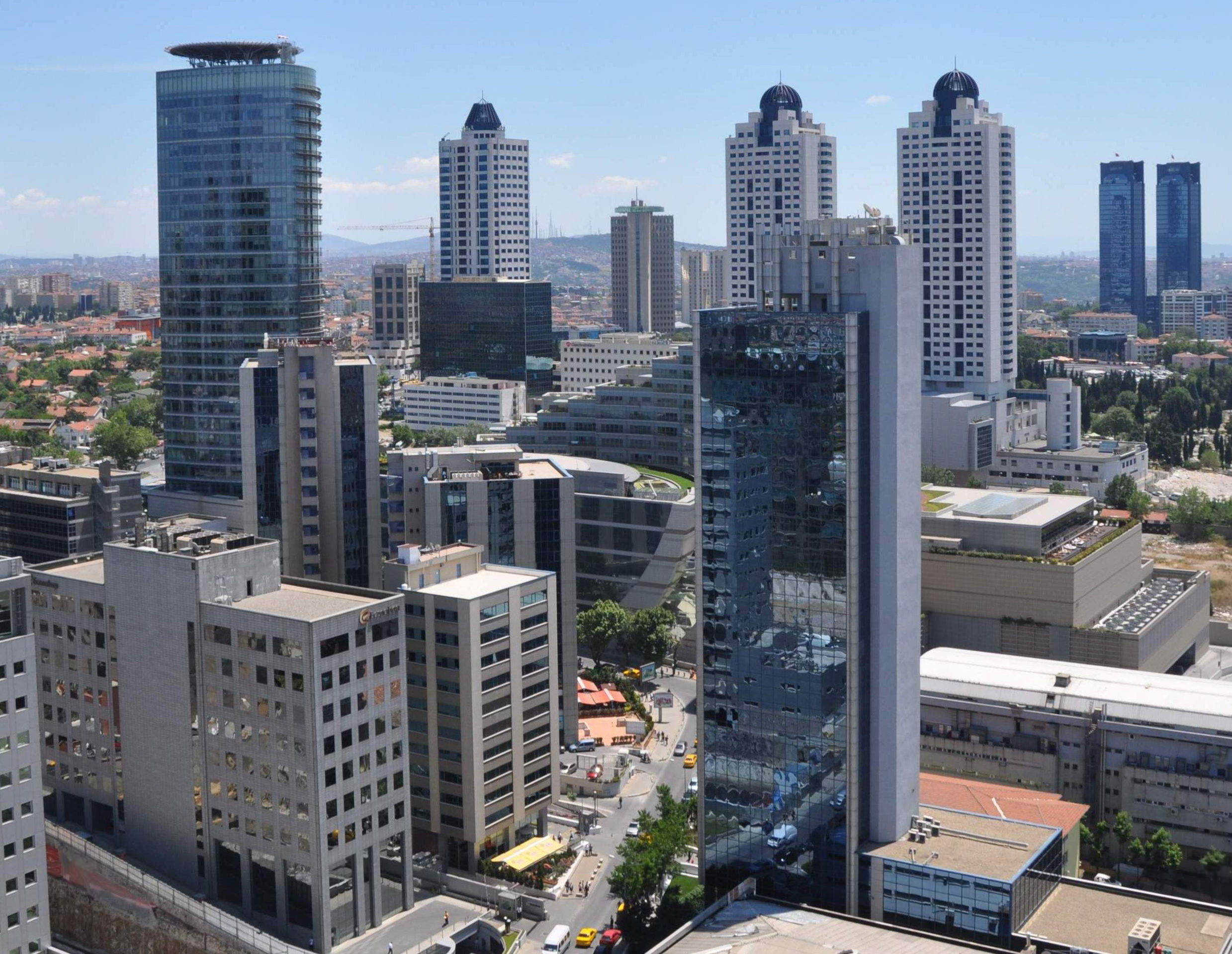 View of Levent district, Istanbul